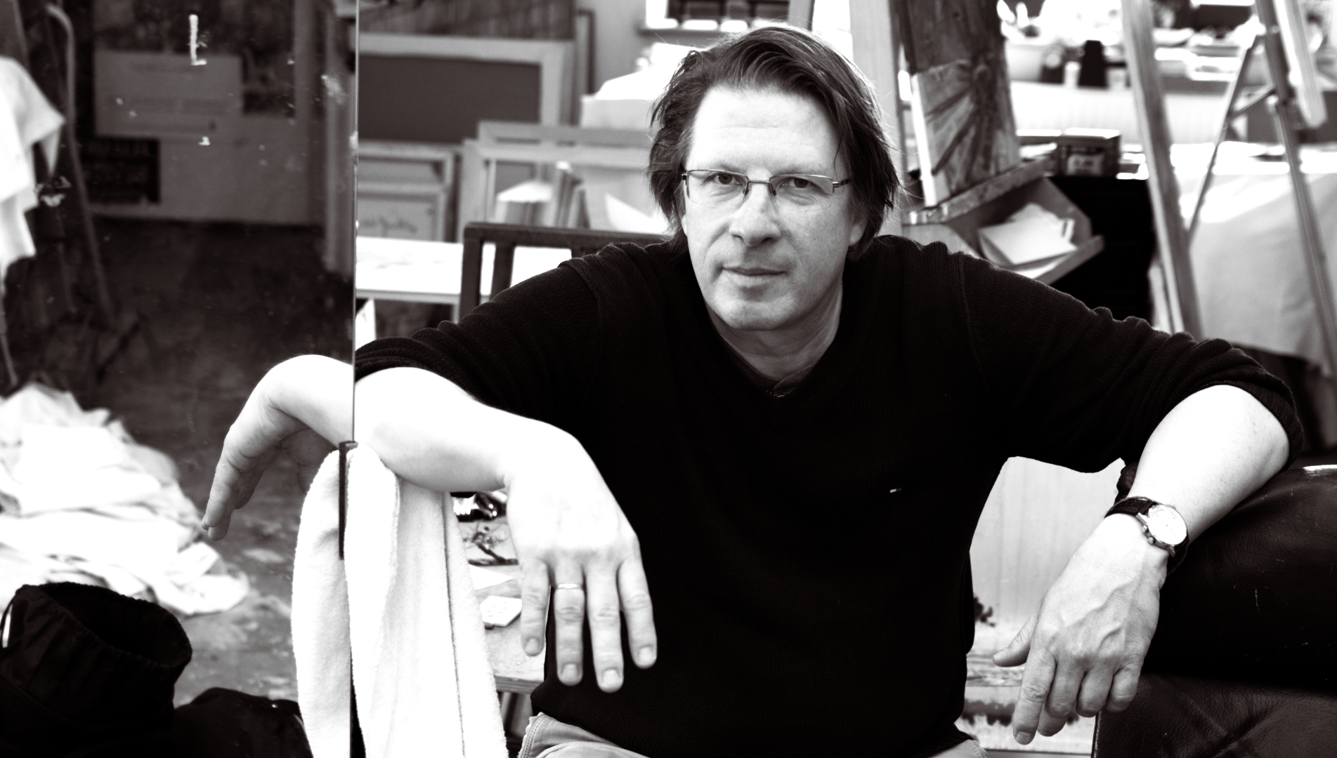 German Painter Matthias Brock in his studio.